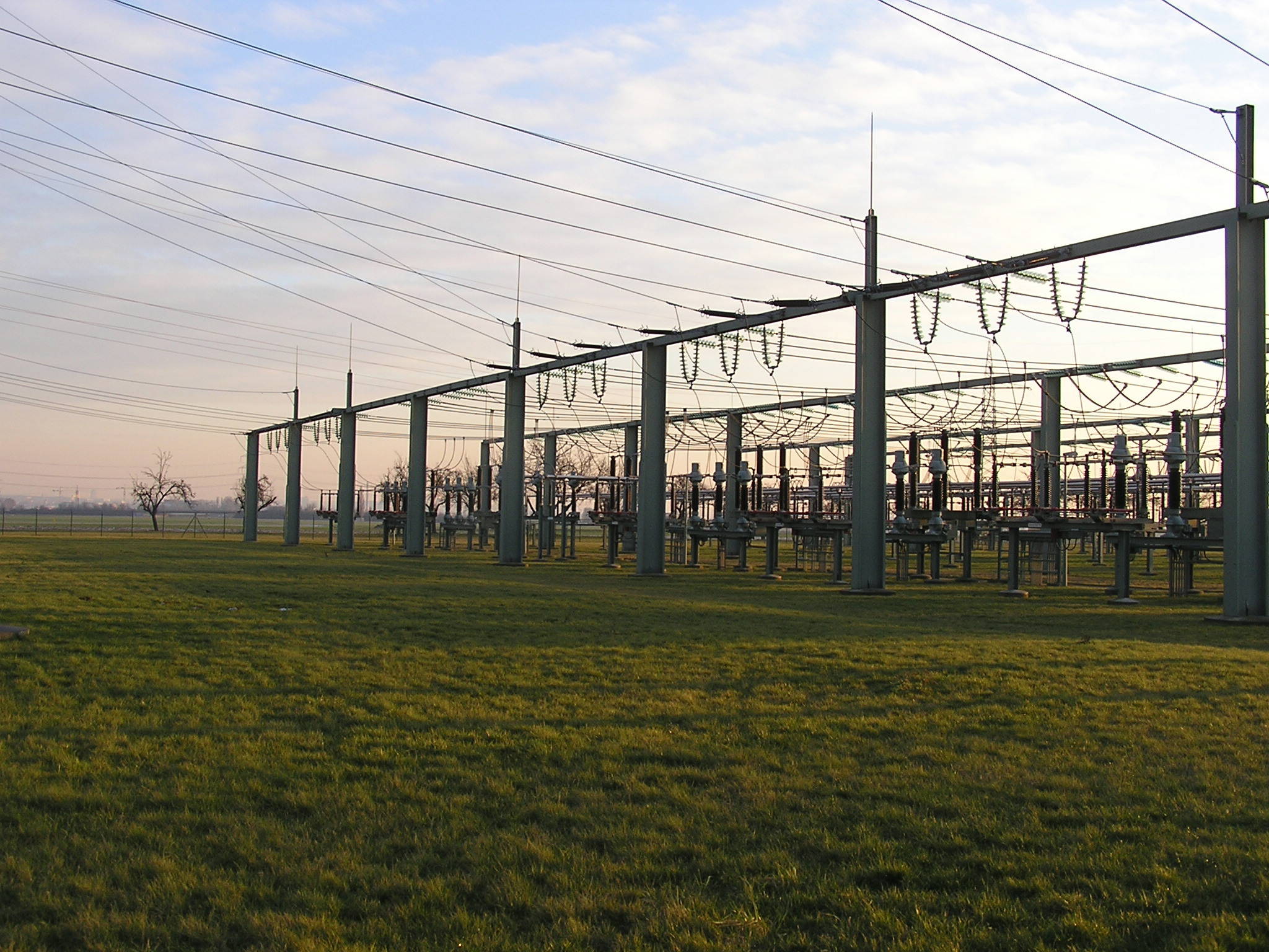 Electrical substation Bommersheim (Oberursel, Germany) for 110,000 Volts - Anchor pylons and switchgear